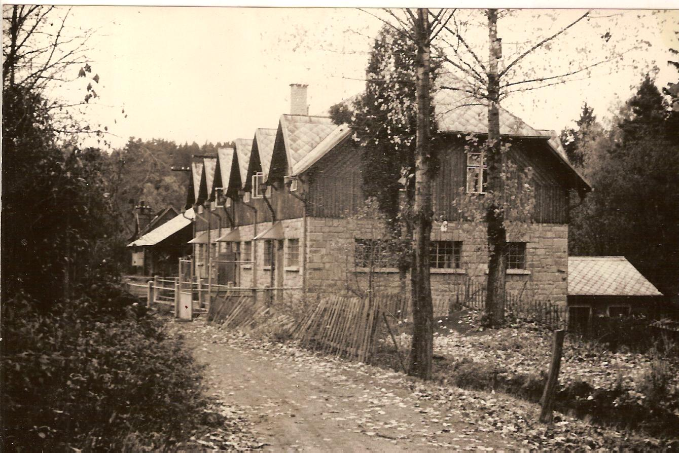 Building of Former will im Mariadol, Czech republic